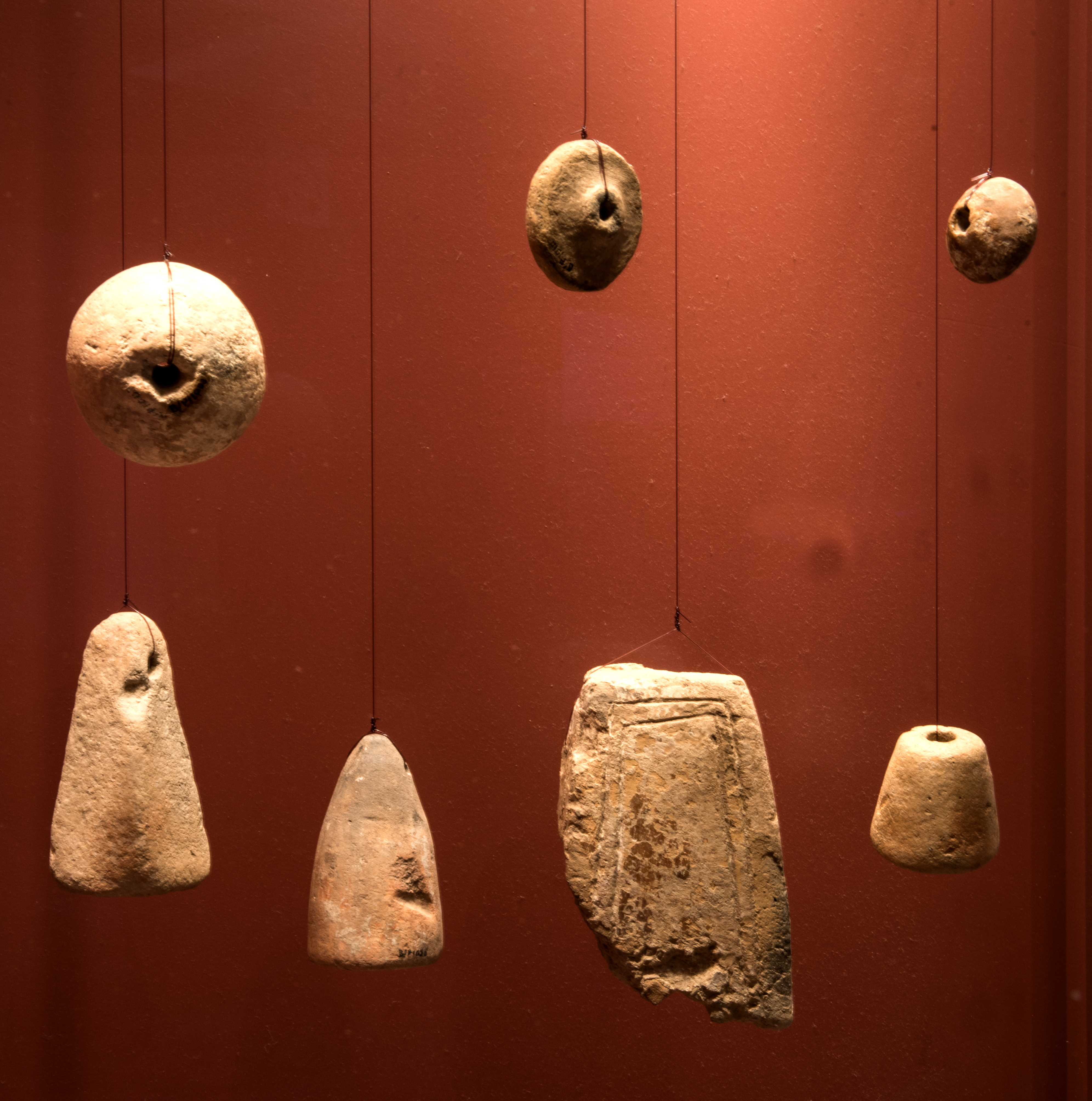 Bronze Age weight looms on permanent display at the National Museum of Archaeology in Valletta, Malta.